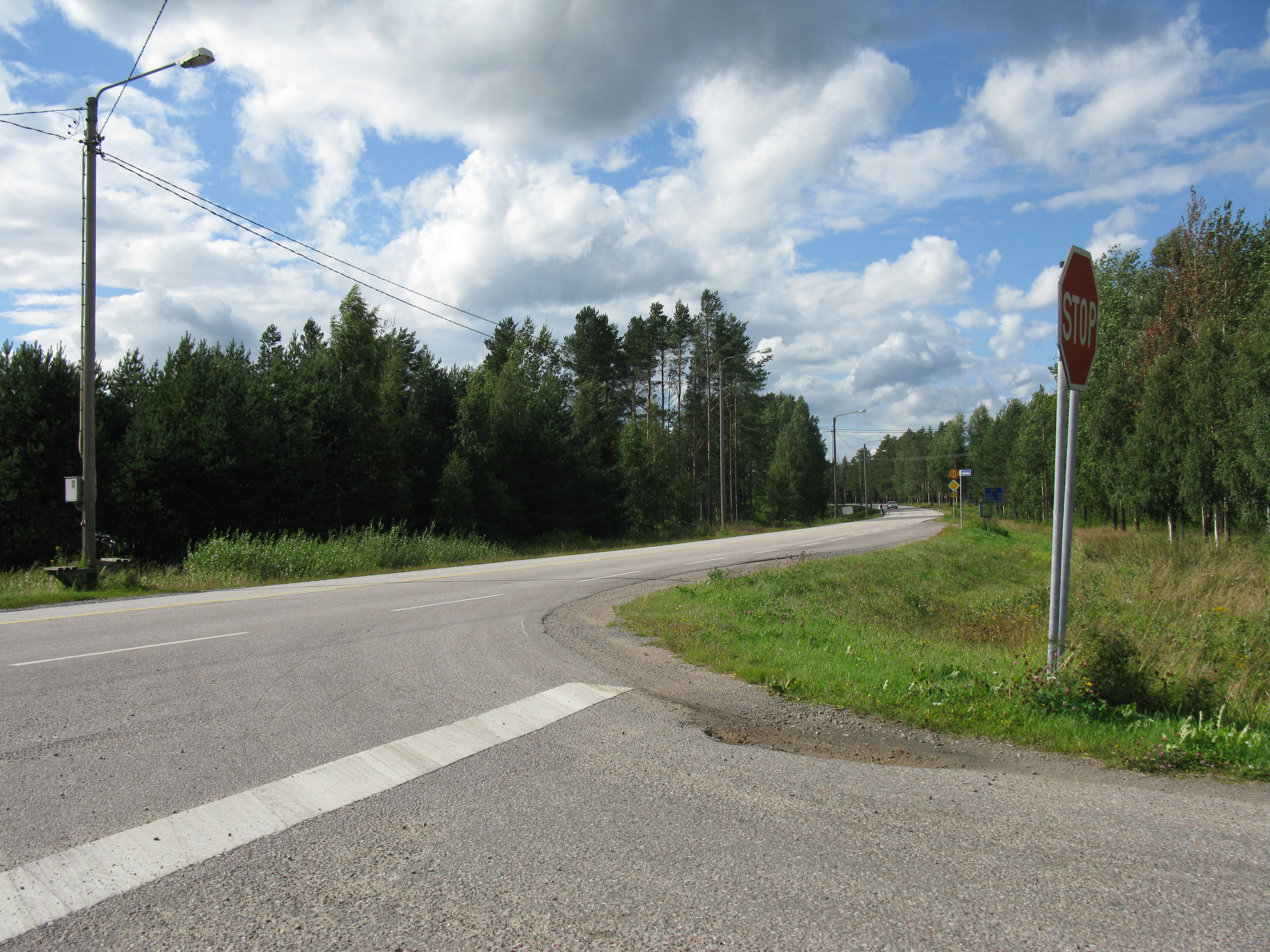 Main road 88 seen from the crossing of the regional road 822 in Pyhäntä, Finland